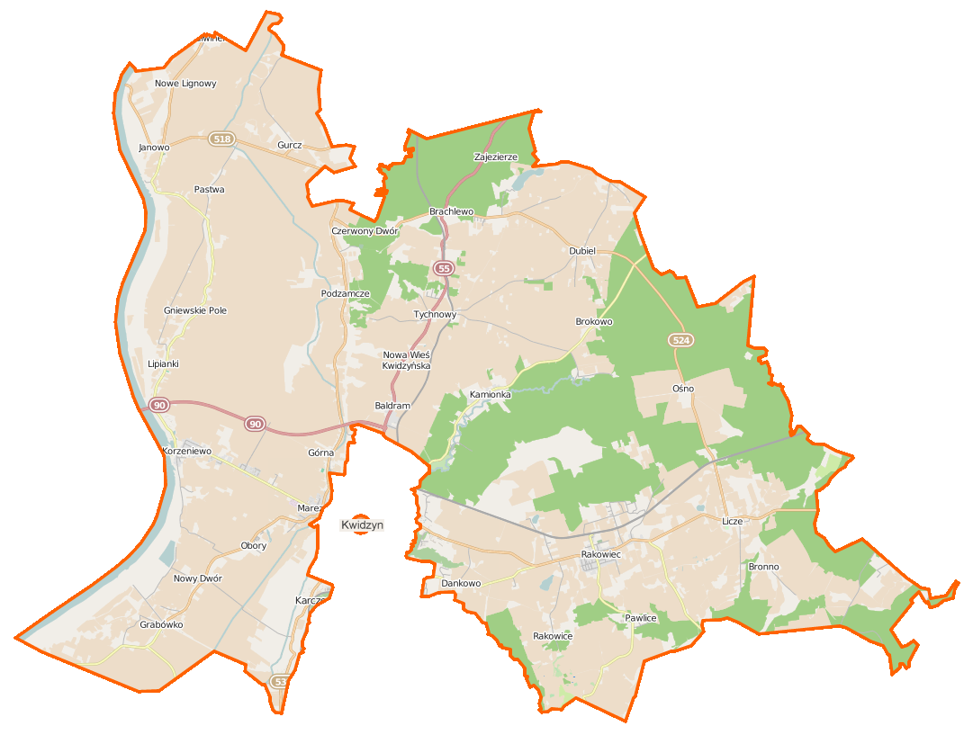 Map of Gmina Kwidzyn, Poland This map of Kwidzyn (gmina wiejska) was created from OpenStreetMap project data, collected by the community. This map may be incomplete, and may contain errors. Don't rely solely on it for navigation.